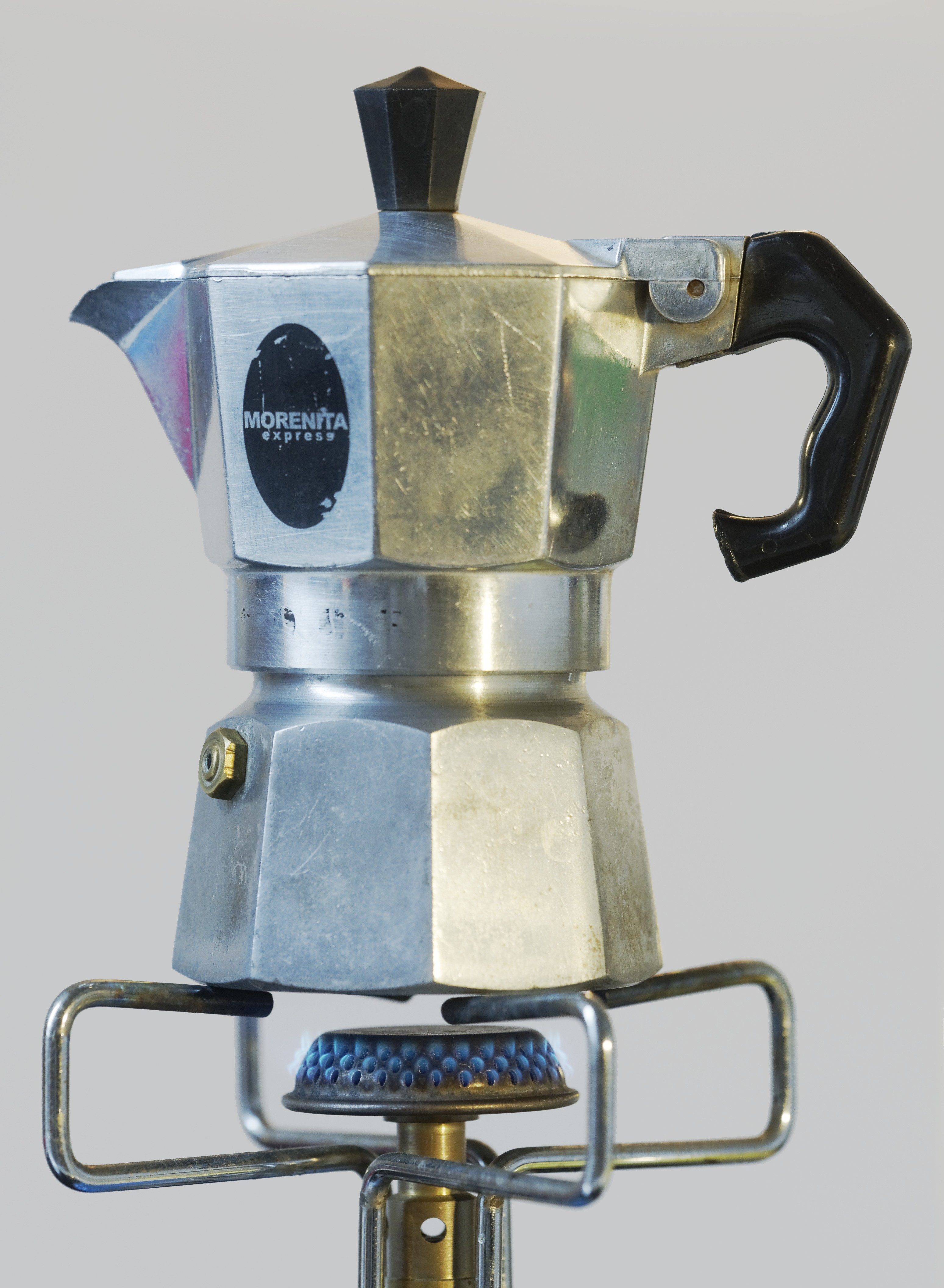 Moka Pot active on gas flame